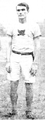 George Bonhag wearing the Winged Fist of the Irish American Athletic Club, 1907.